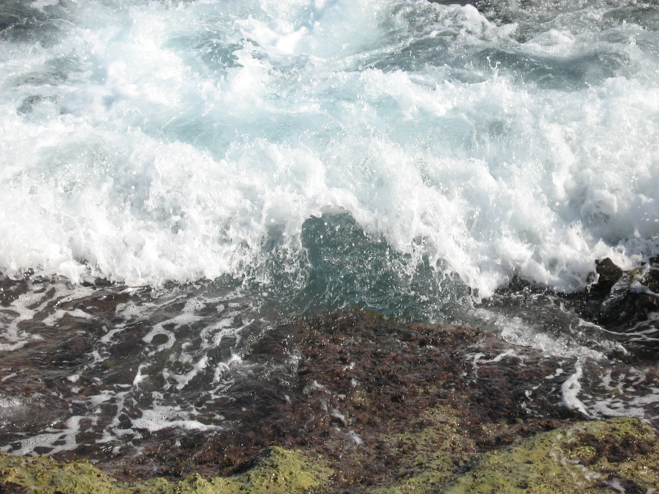 Mediterranean Sea, on the coast of Malta (Sliema)